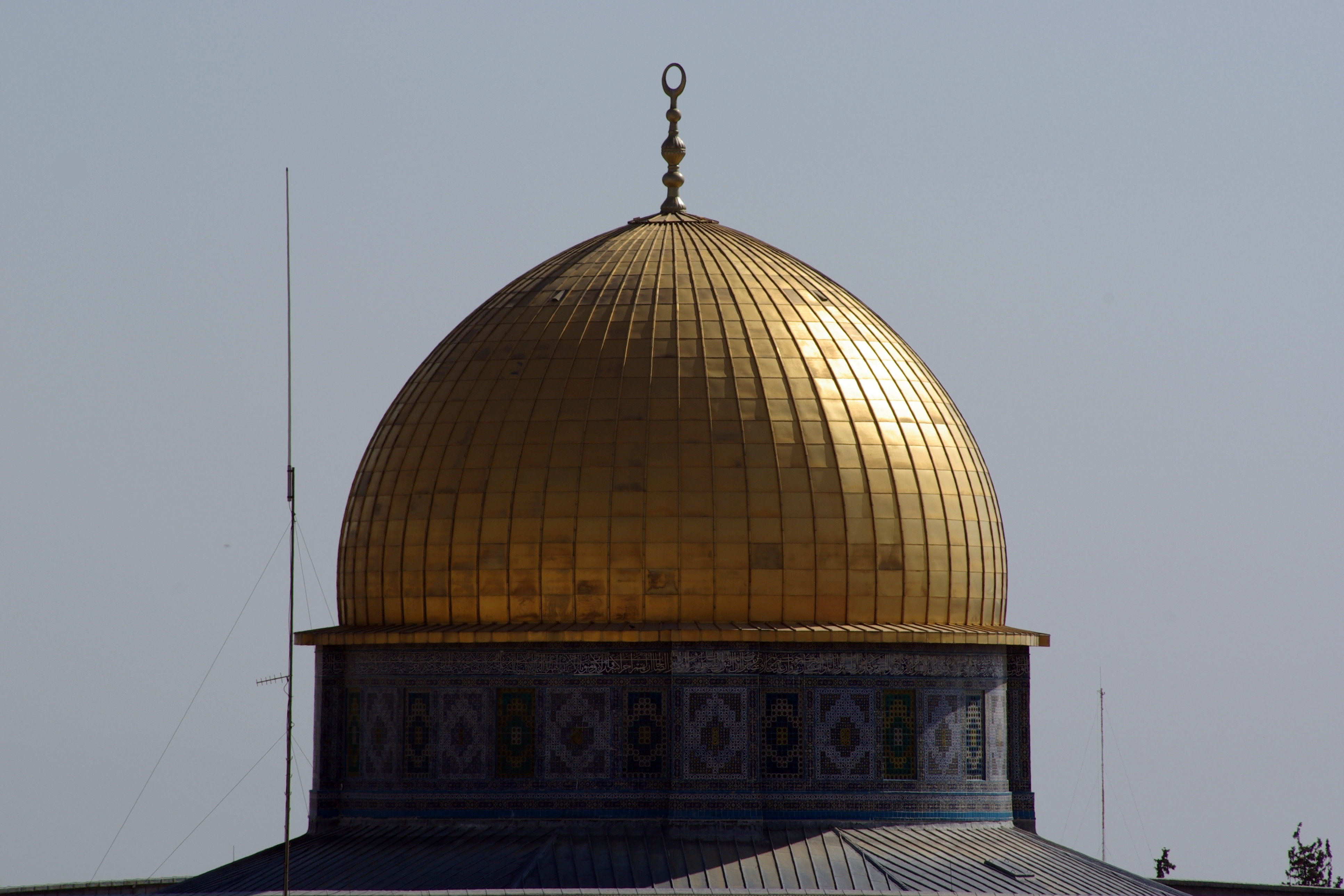 Jerusalem, Dome of the Rock seen from the roof of the Austrian Hospice.